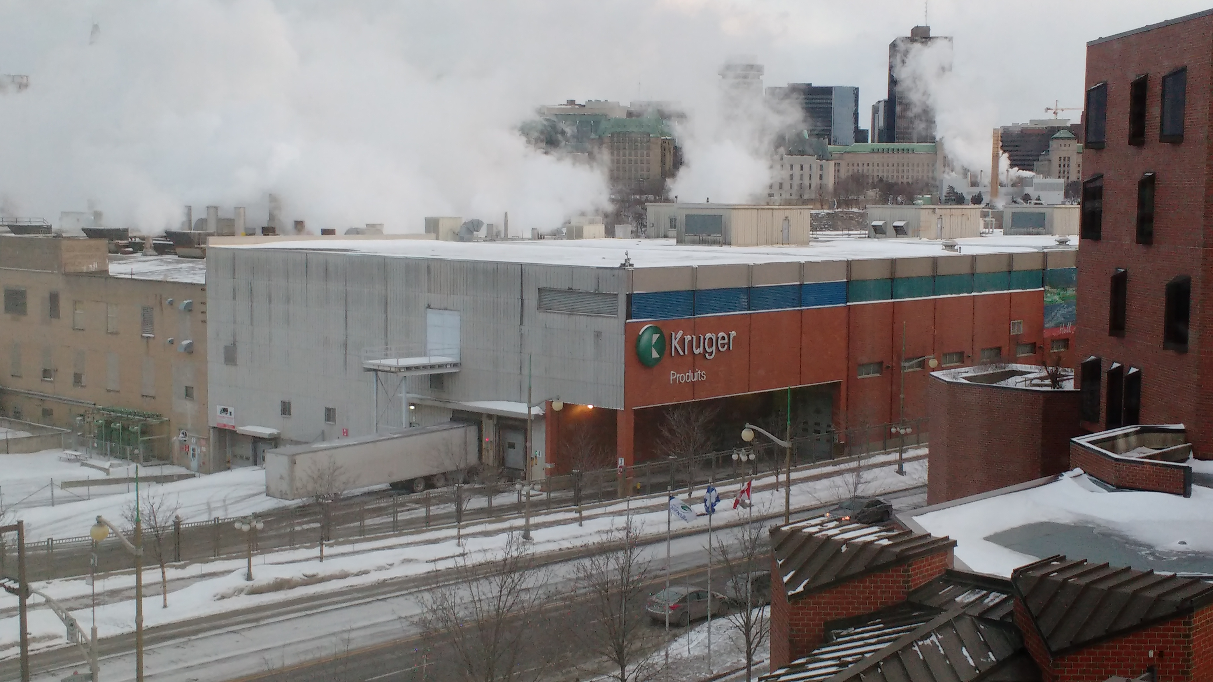 Photo of the Kruger mill in Gatineau, QC. Taken from our hotel window across the road.